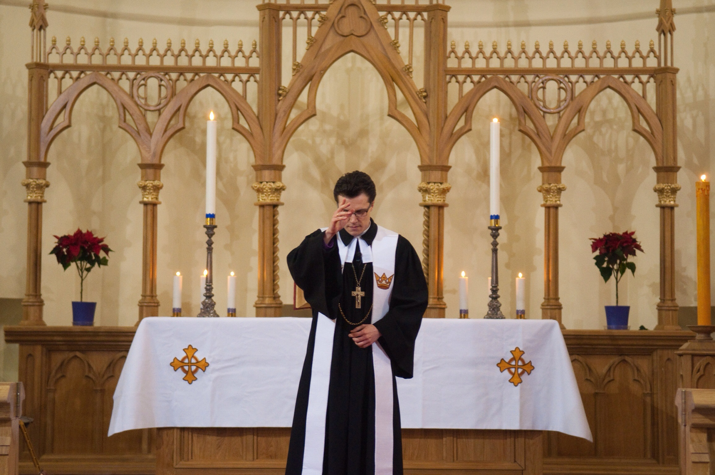 worship service with bishop Dietrich Brauer